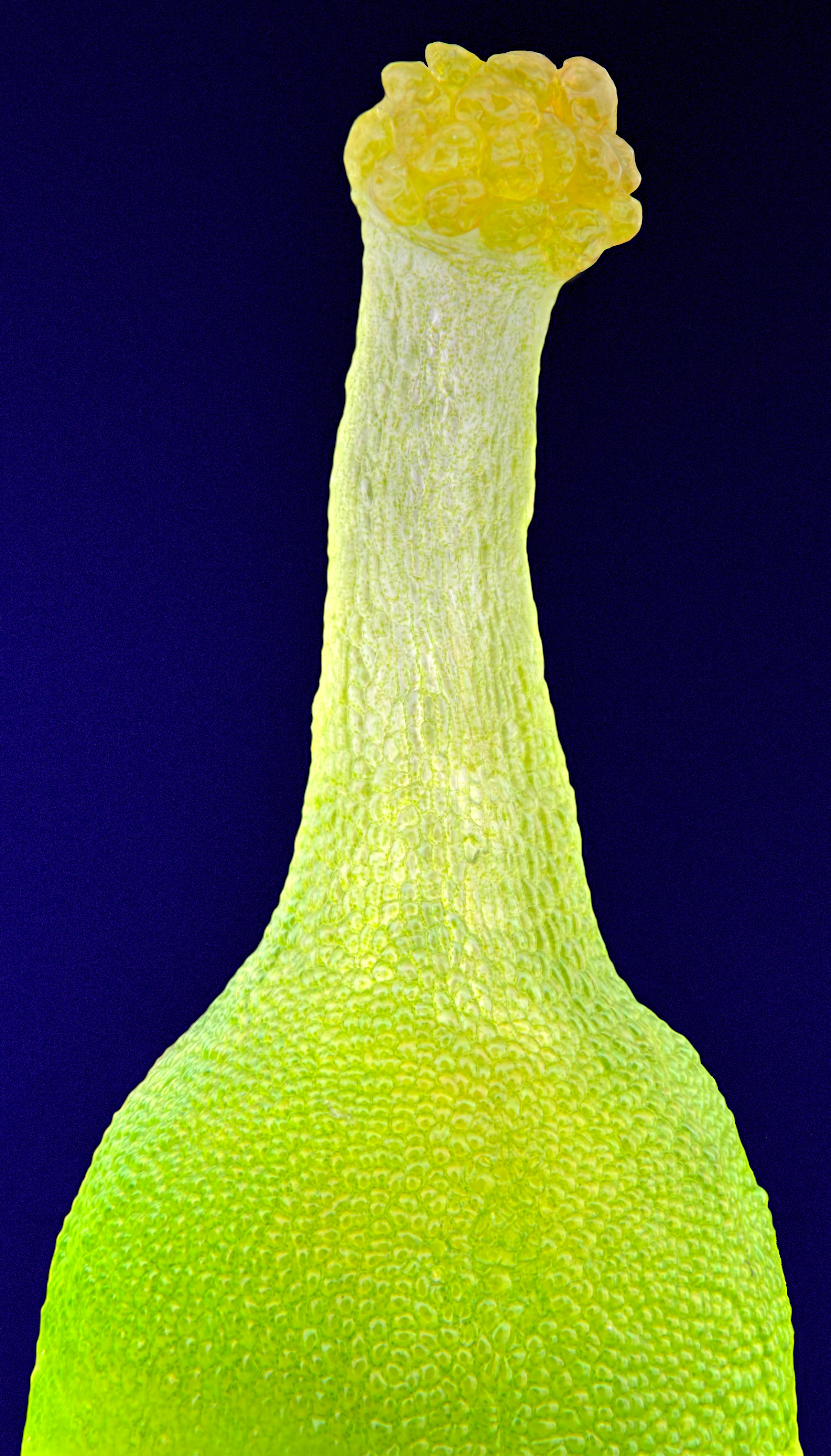 Gemmae receptacle of Blasia pusilla